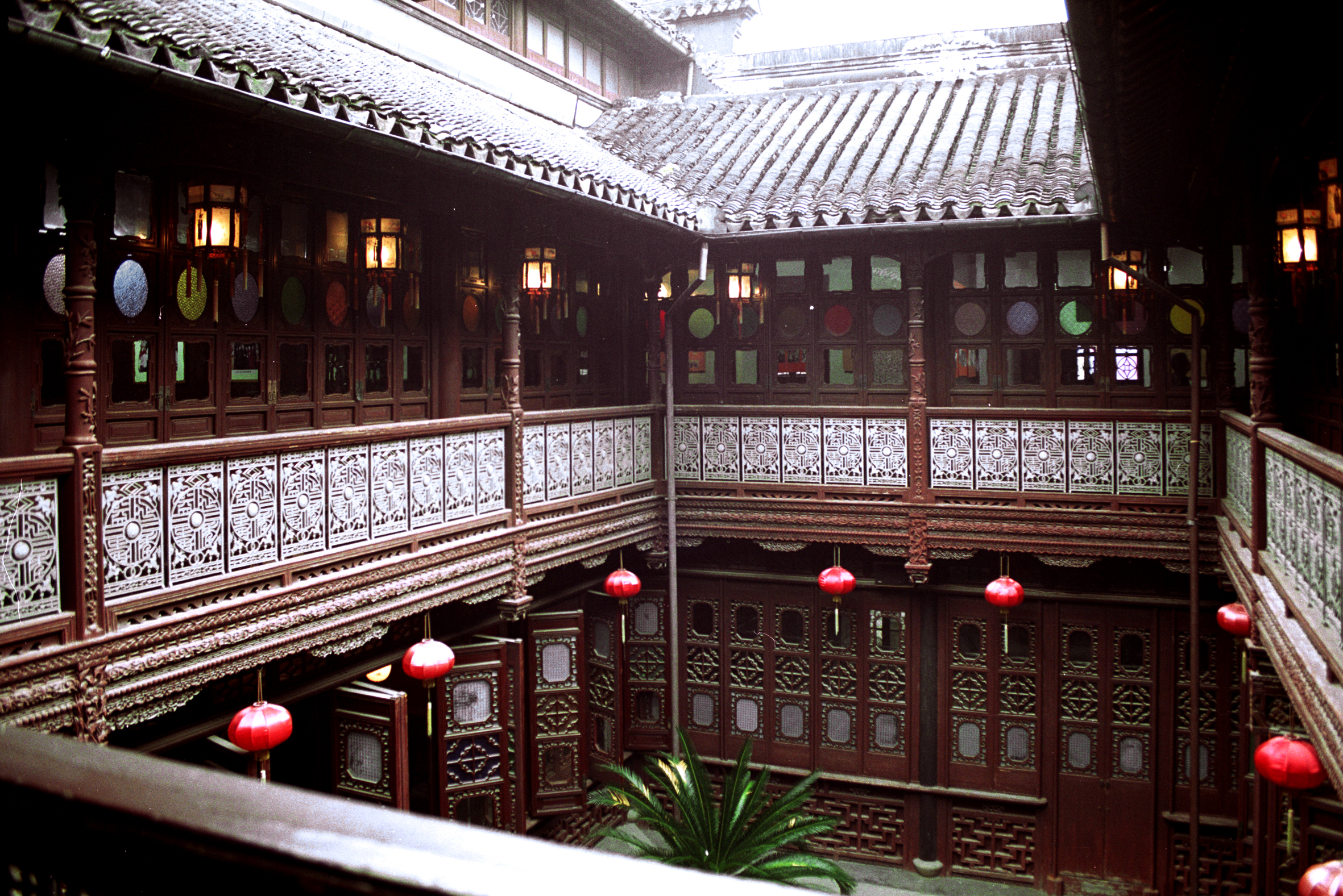 The Carved Building in Tongshan, Suzhou 东山雕花楼